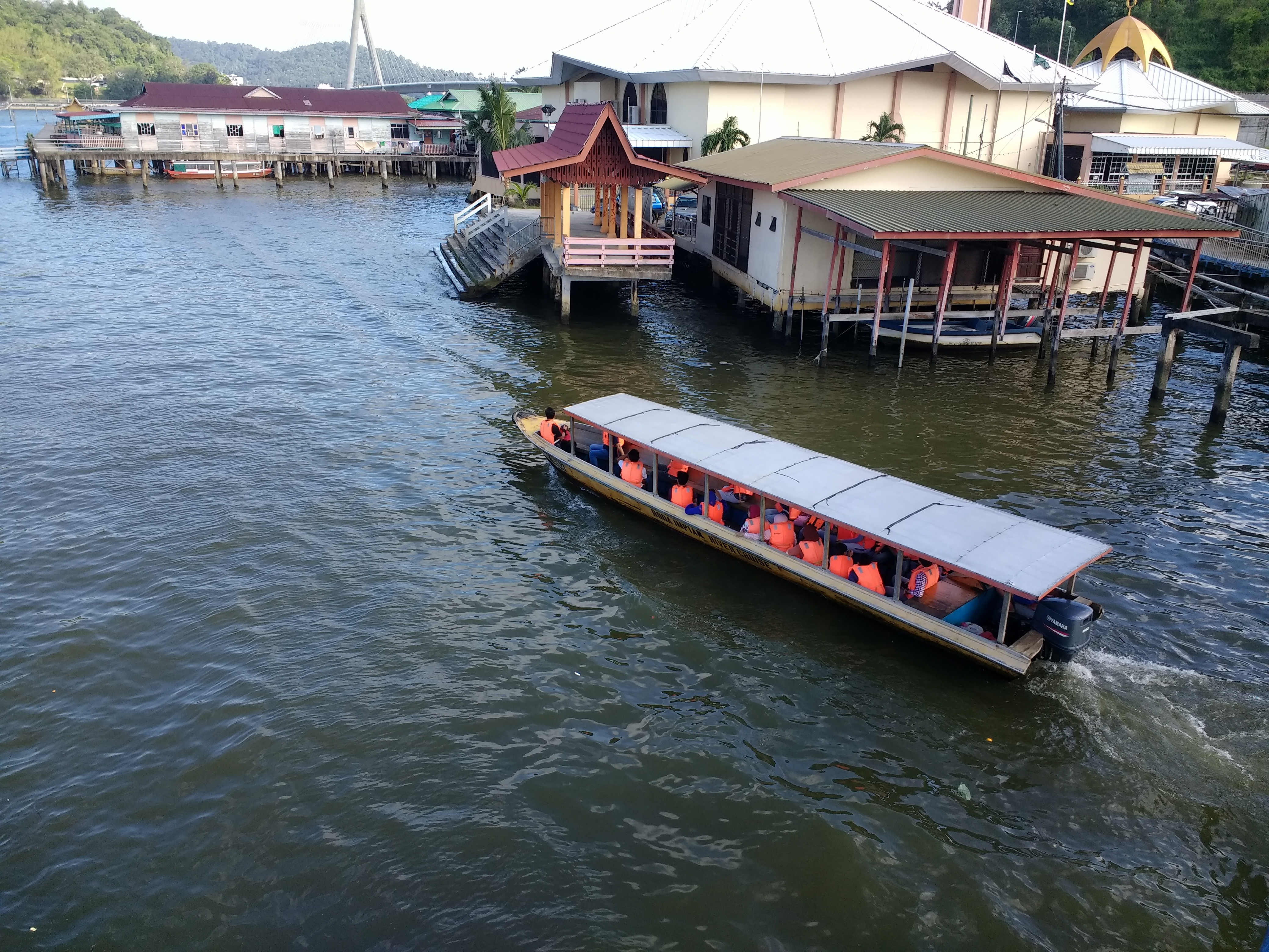 Kampong Ayer (water village) in Brunei.